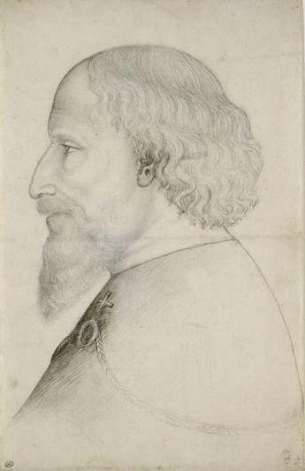 Sigismund of Luxembourg, reg. 1410-1437